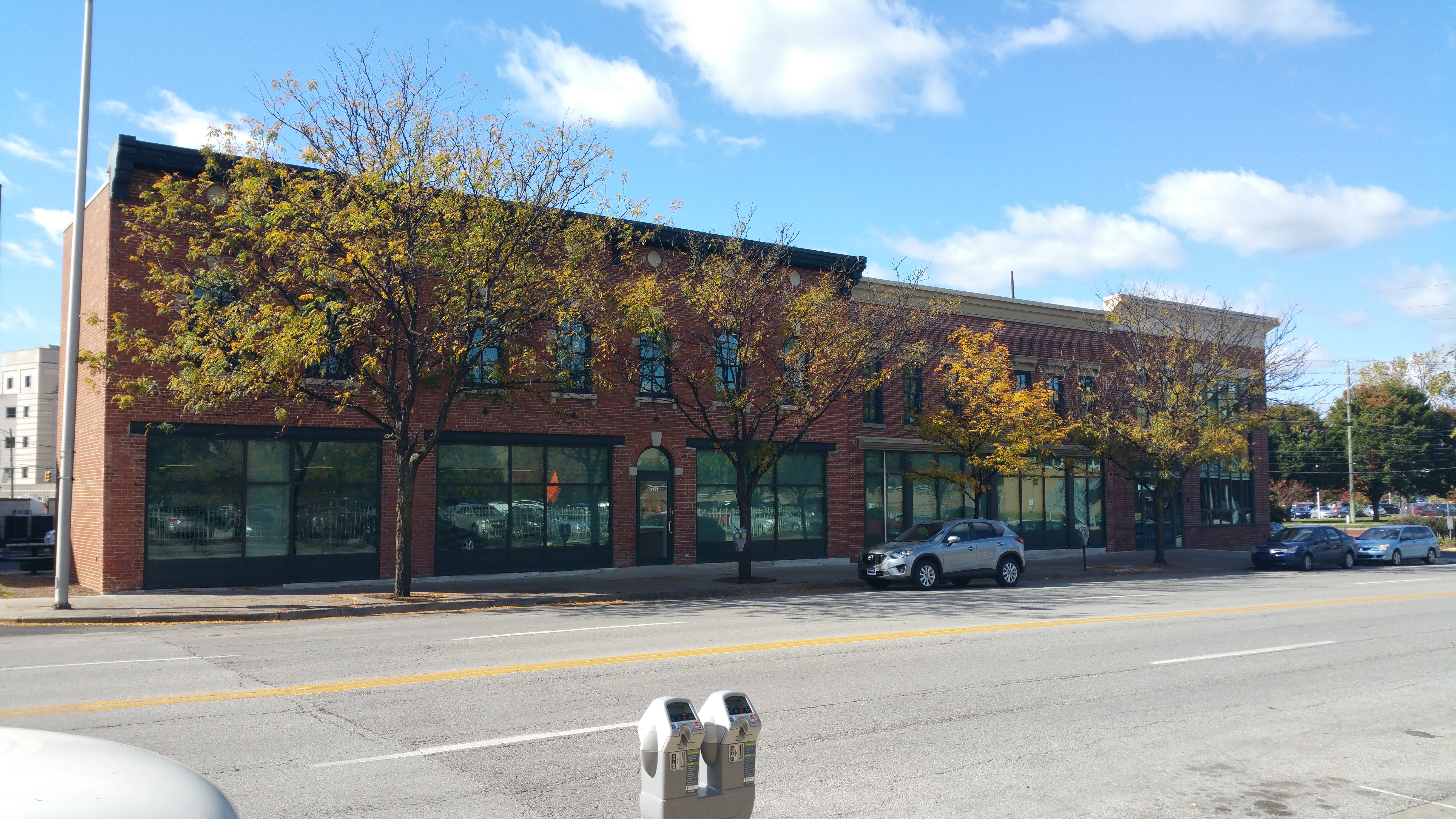 This block of offices, first constructed in the 1920s, underwent serious deterioration before being restored in the 1990s.